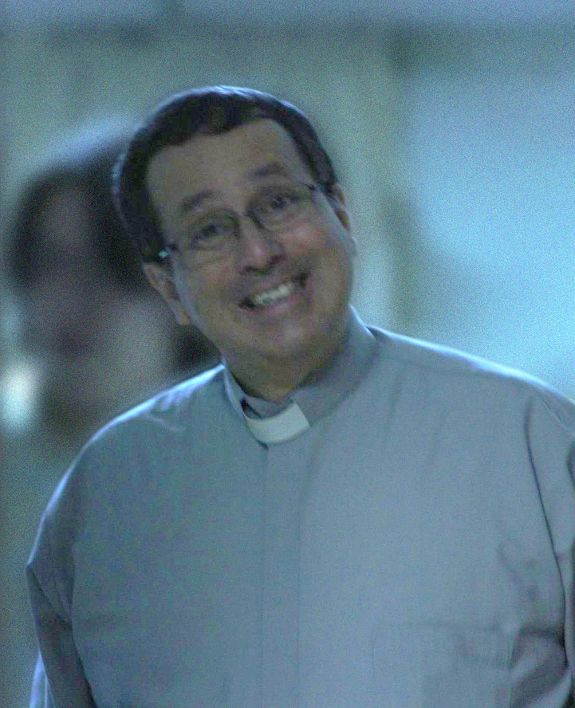 Luis Fernando Intriago Paez in his room in the parish of the Church of Our Lady of Czestochowa in Guayaquil, on Wednesday, May 25, 2011, around 9 at night, in the company of some young people, who were his groups, without However, we always met in the group, from the parish house where he lived, from Monday to late at night until dawn.